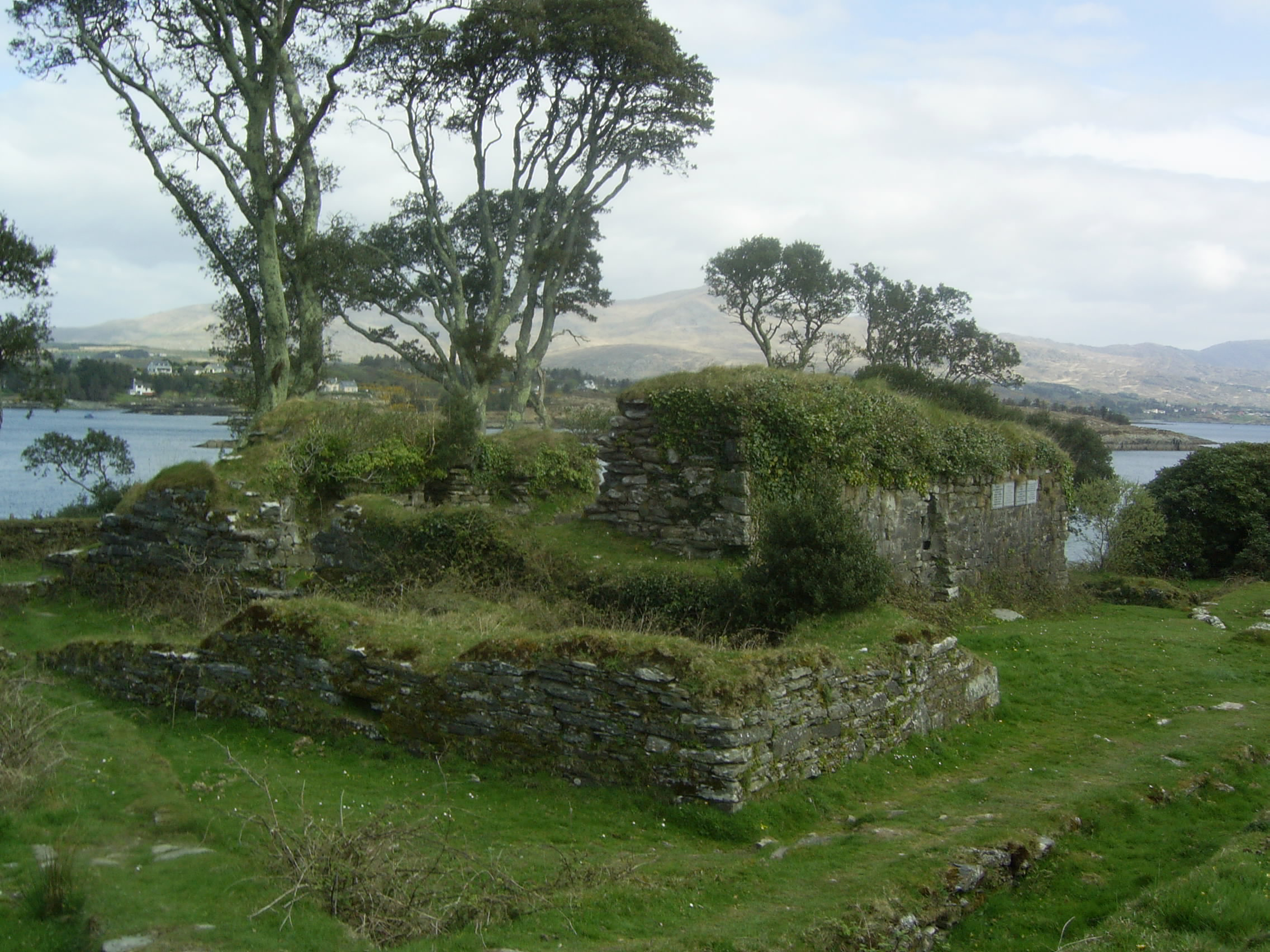 Remains of Puxley Castle, near Dunboy castle My own pic.